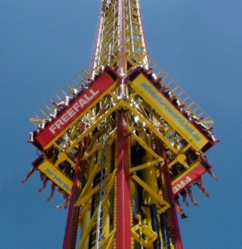 52m shot and drop ride